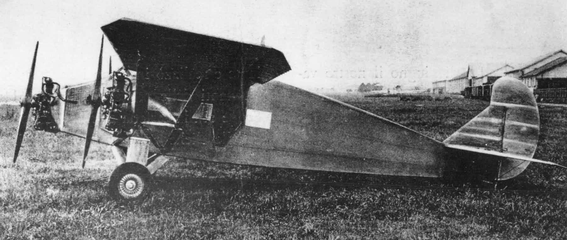 Caproni Ca.97 photo from NACA Aircraft Circular No.84